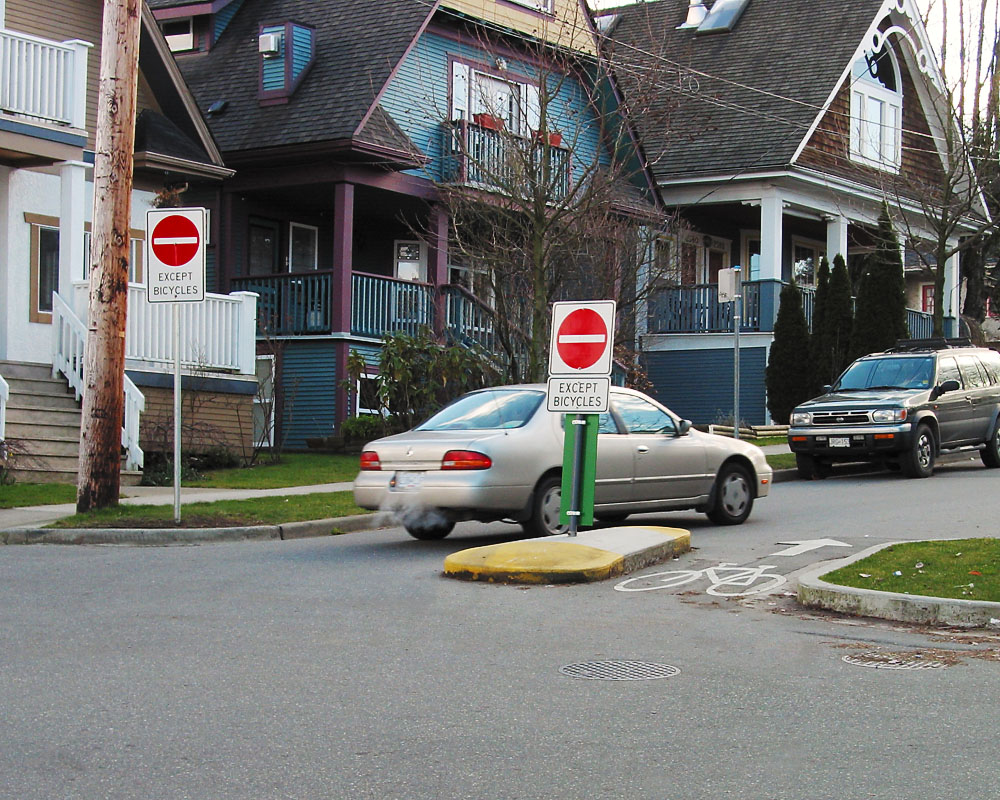 Directional closure violation located in Vancouver, British Columbia, Canada